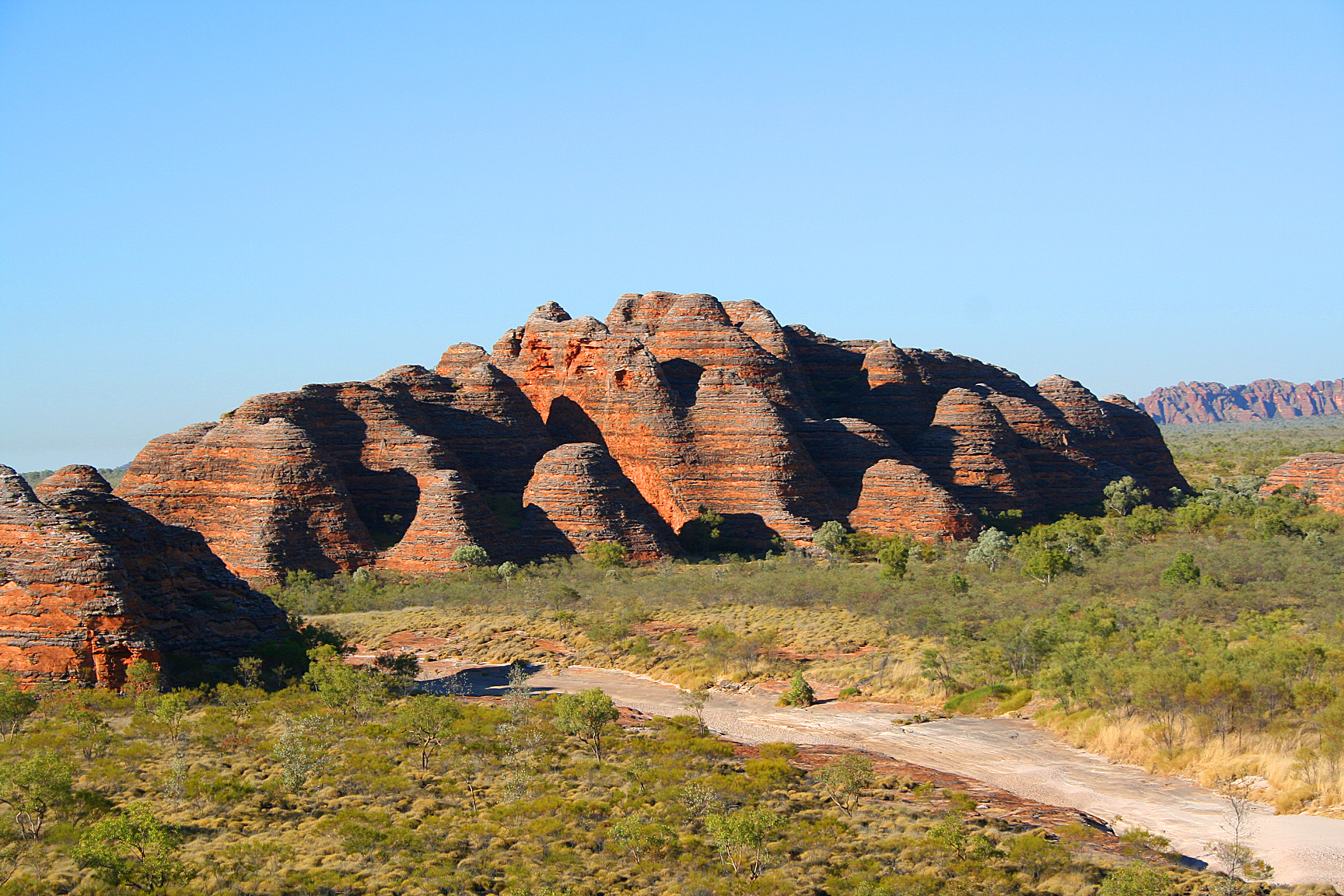 Purnululu NP (WA)